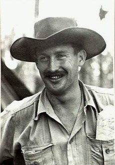 September 1942. Port Moresby, Papua New Guinea. Squadron Leader L. Jackson, Commanding Officer of No. 75 (Kittyhawk Fighter) Squadron RAAF.